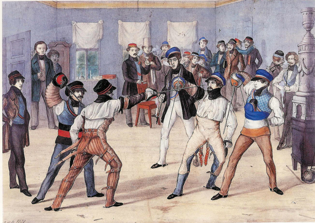 Mensur zwischen den Corps Bremensia Göttingen (links) und Nassovia Göttingen am 12. Dezember 1837 im "Deutschen Haus", Zuschauer sind die Vertreter der anderen Göttinger Corps sowie der Gastwirt Kaiser, kolorierte Lithographie, Sammlung des Corps Brunsviga Göttingen Mensur duel between Corps Bremensia and Corps Nassovia Göttingen in the "Deutsches Haus" inn on December 12, 1837, spectators are representatives of other Göttingen corps' and the landlord Mr Kaiser, coloured lithograph, collection of Corps Brunsviga Göttingen